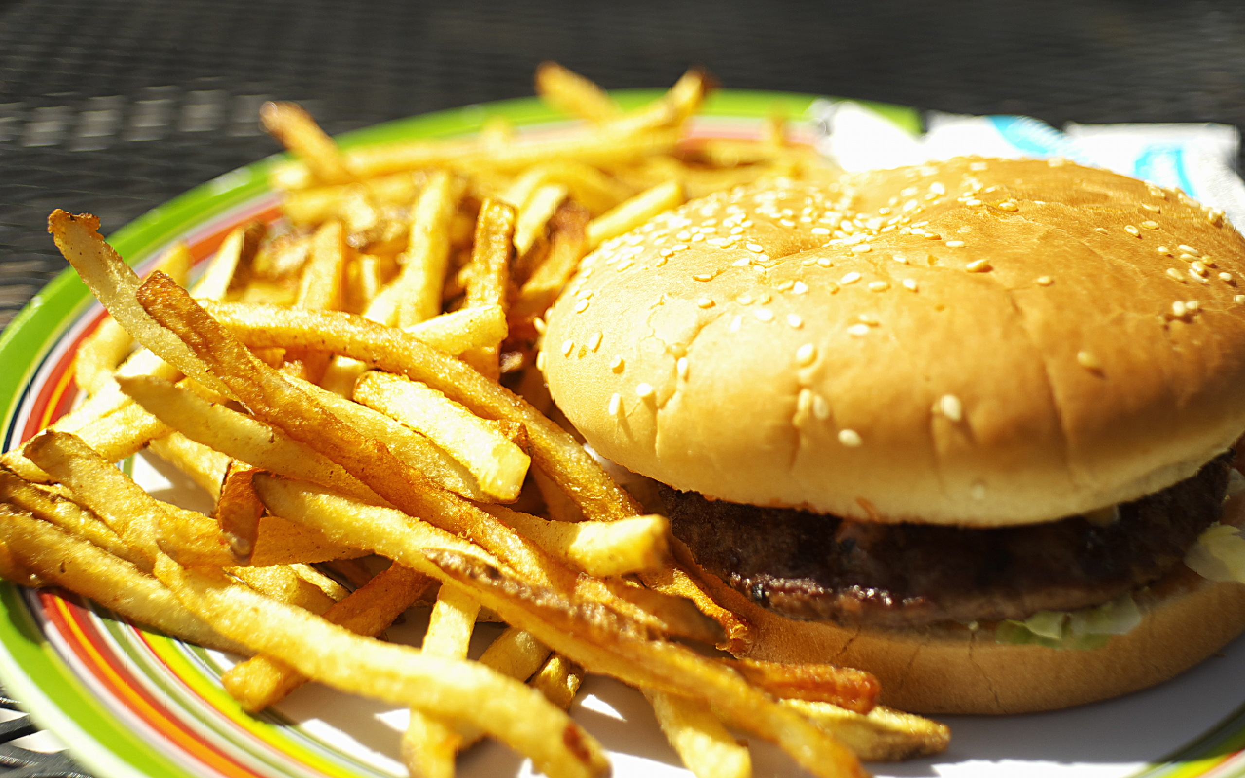 No. 2 meal from the Crown Burger Plus on Downing and Wesley by Porter Hospital, Denver, CO. Mayo and Frank's Red for the fries.